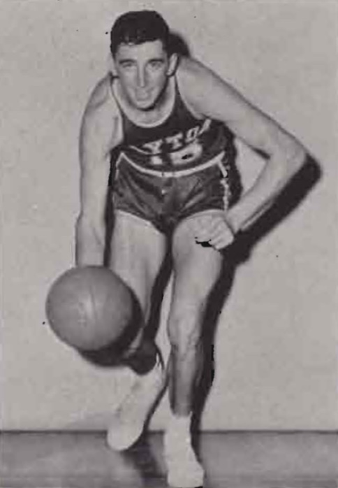 University of Dayton Flyers basketball player Johnny Horan from the 1955 “Daytonian” yearbook.